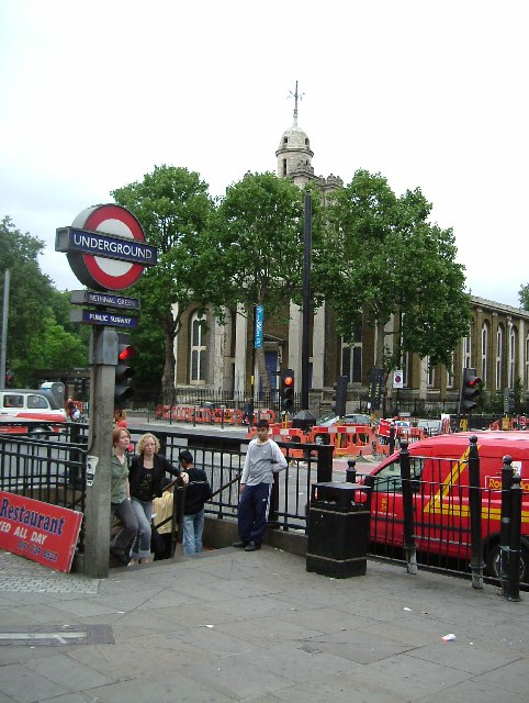 The picture is of St John’s Bethnal Green and the Underground Station.